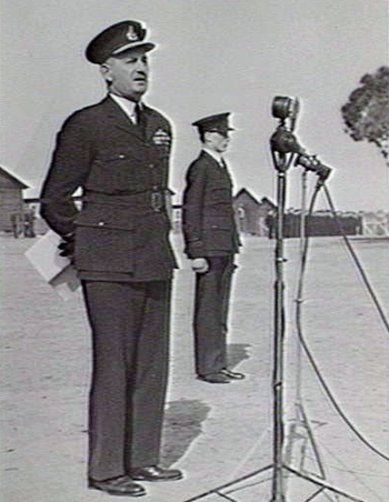 Sydney, NSW. Air Commodore A. T. Cole CBE MC AFC RAAF, addressing a parade of RAAF trainees prior to their departure for Canada as part of the Empire Air Training Scheme (EATS).